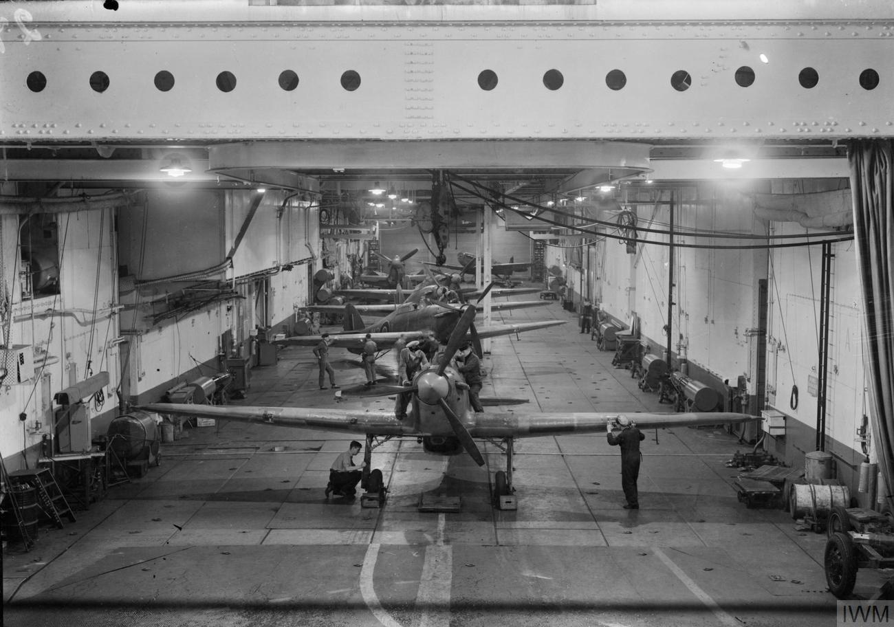 Five Royal Navy Hawker Sea Hurricanes and a single Supermarine Seafire lined up in the hangar of HMS Argus (I49), with several mechanics working on them. The base of the lift is in the foreground. Note the space needed for aircraft with non-folding wings.